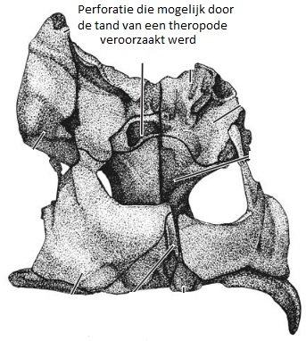 Drawing with caudal view on the braincase of Olorotitan arharensis Godefroit, Bolotsky & Alifanov, 2003 (holotype AEHM 2-845). Indication of possible theropod toothmark. Upper Cretaceous of Kundur, Russia